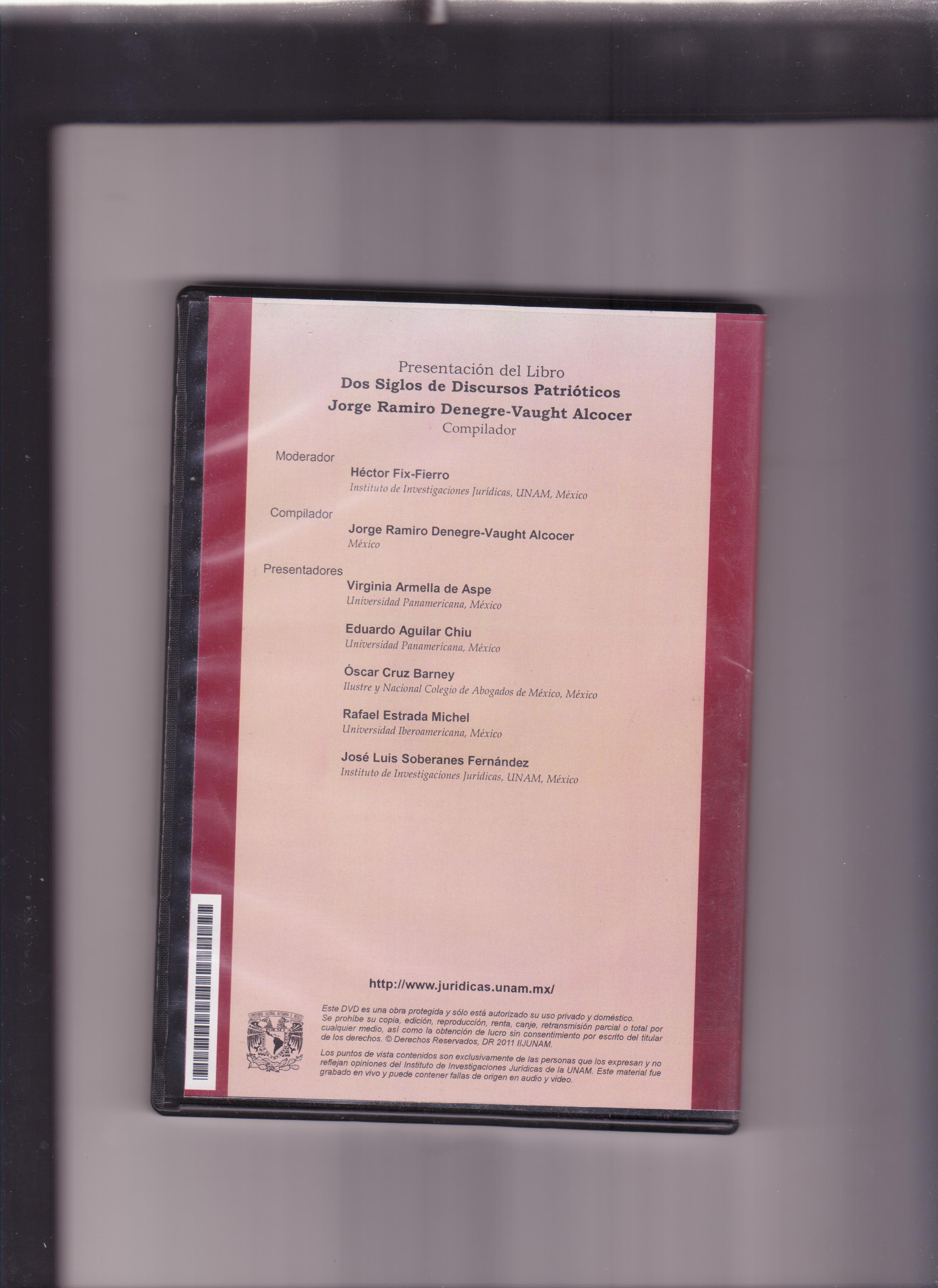 Presentación del libro Dos siglos de discursos patrióticos, 27de septiembre de 2011.